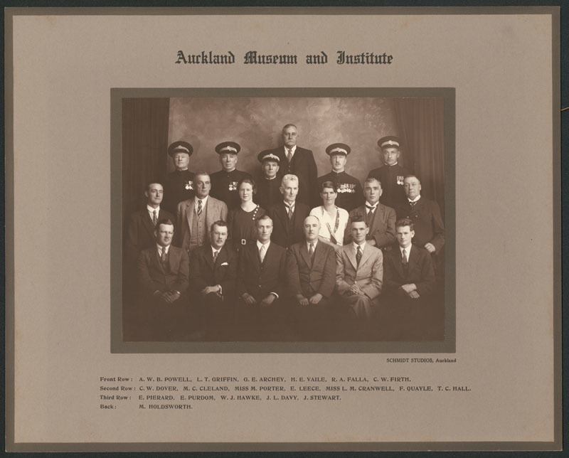 Staff group portrait. Front Row: A.W.B. Powell, L.T. Griffin, G.E. Archey, H.E. Vaile, R.A. Falla, C.W. Firth. Second Row: C.W. Dover, M.C. Cleland, Miss M. Porter, E. Leece, Miss L.M. Cranwell, F. Quayle, T.C. Hall. Third Row: E. Pierard, E. Purdom, W.J. Hawke, J.L. Davy, J. Stewart. Back: M. Holdsworth.